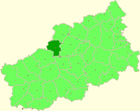 Tver Oblast map by Al Silonov